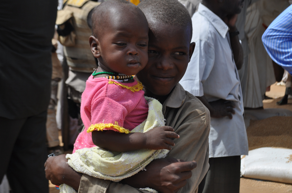 Two children from the Abu Shouk IDP Camp.